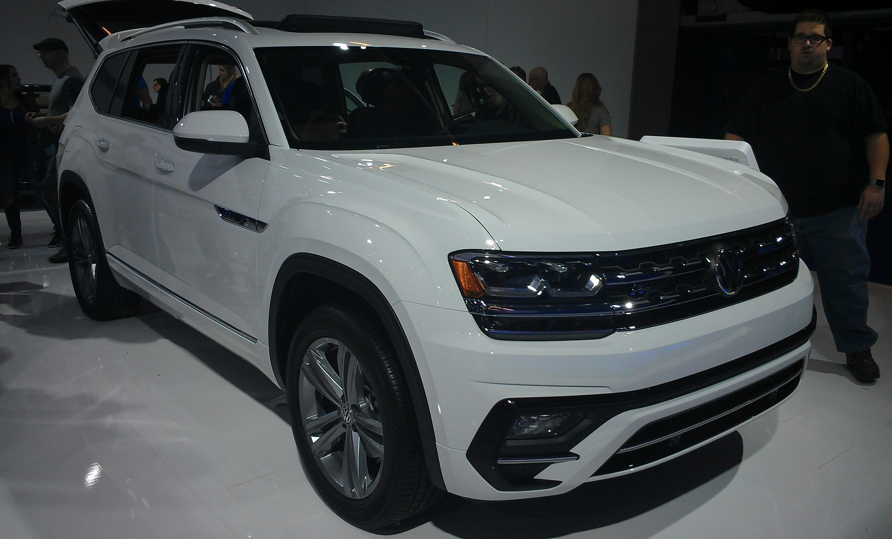 2018 Volkswagen Atlas photographed in Montreal, Quebec, Canada inside the 2018 Montreal International Auto Show.